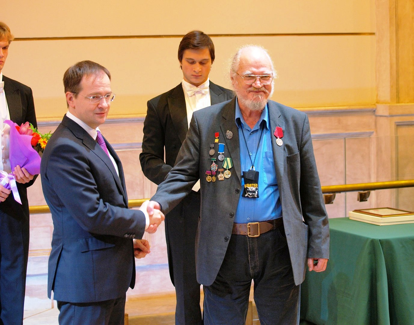 Vladimir Medinsky